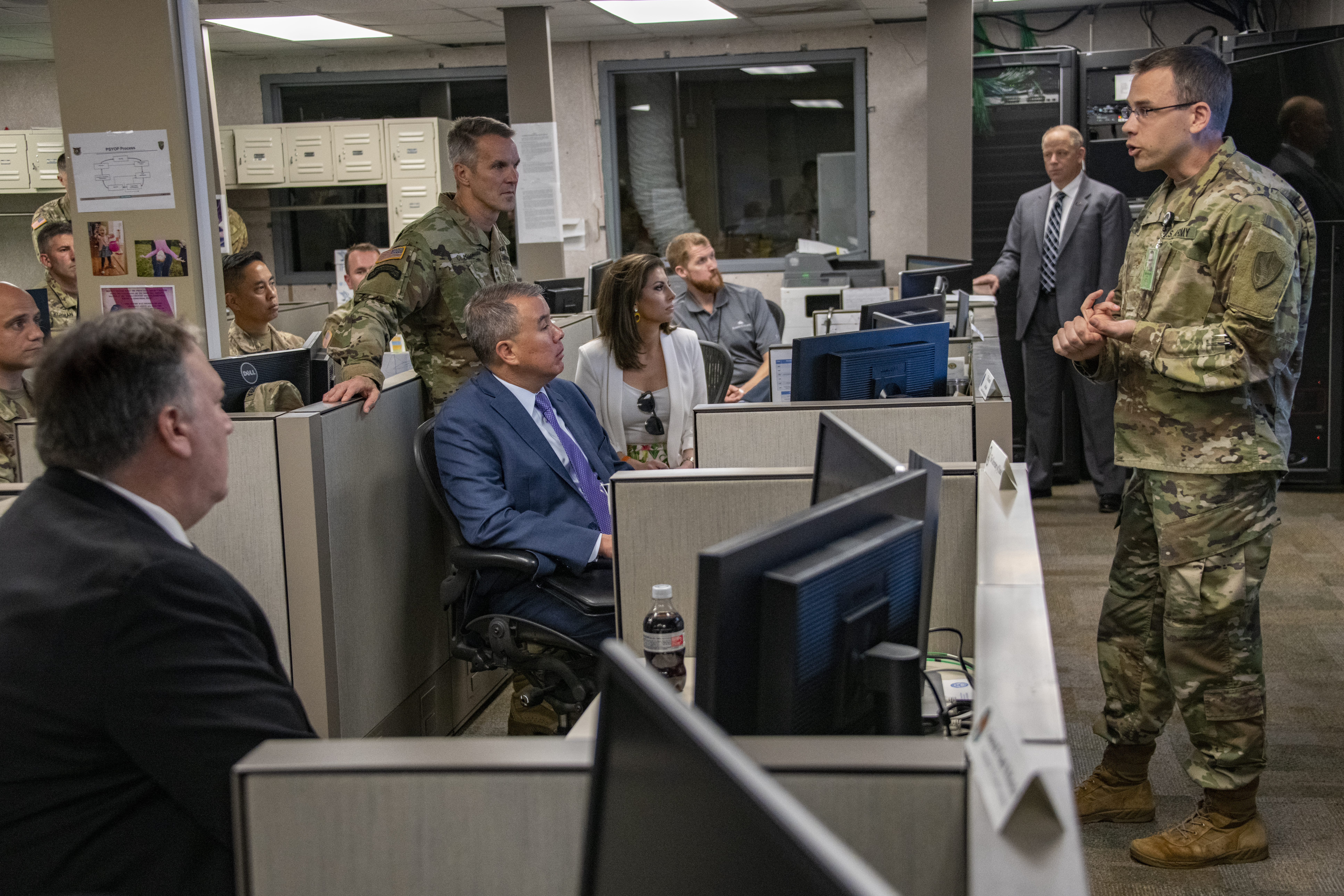 U.S. Secretary of State Michael R. Pompeo visits the WebOPS building at the United States Central Command and the United States Special Operations Command at MacDill Air Force Base in Tampa, Florida, June 18, 2019. [State Department photo by Ron Przysucha/ Public Domain]